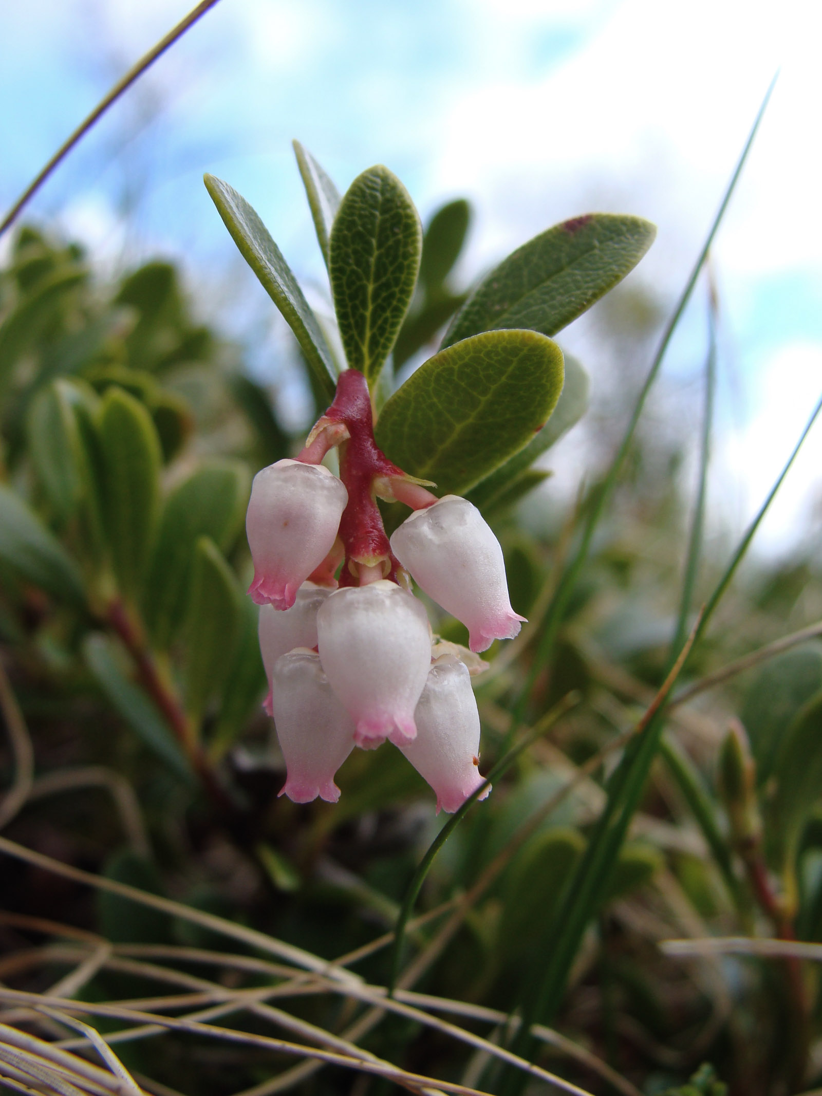 Flowers of a Common Bearberry (Arctostaphylos uva-ursi), Bodø, Norway